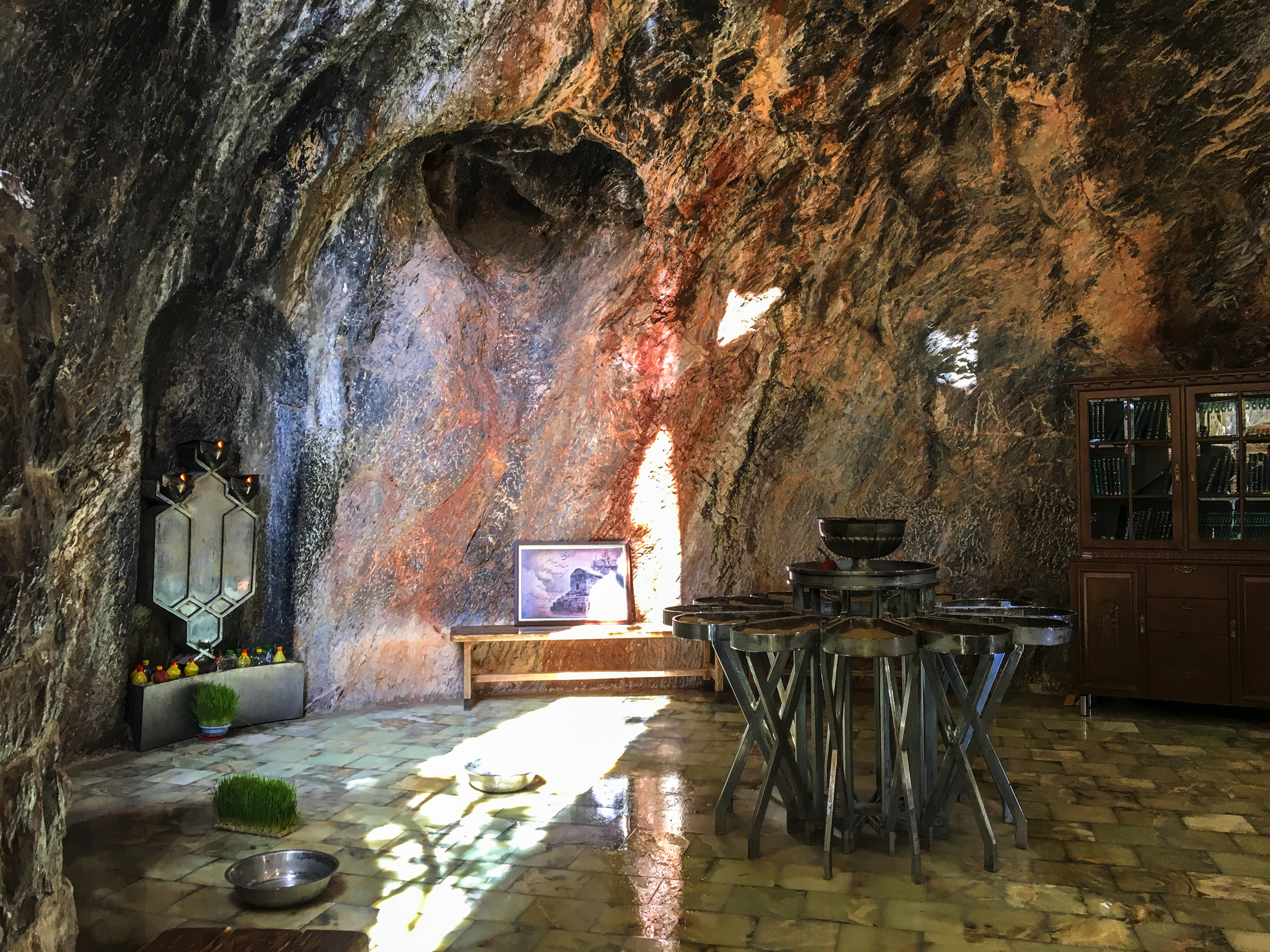 Chak Chak (Persian: چك چك – "Drip-Drip", also Romanized as Chek Chek; also known as Chāhak-e Ardakān and Pir-e Sabz (Persian: پیر سبز) "The Green Pir")[1] is a village in Rabatat Rural District, Kharanaq District, Ardakan County,Iran. At the 2006 census, its existence was noted, but its population was not reported.